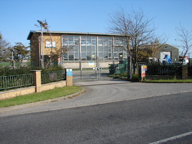 Environment Agency Building